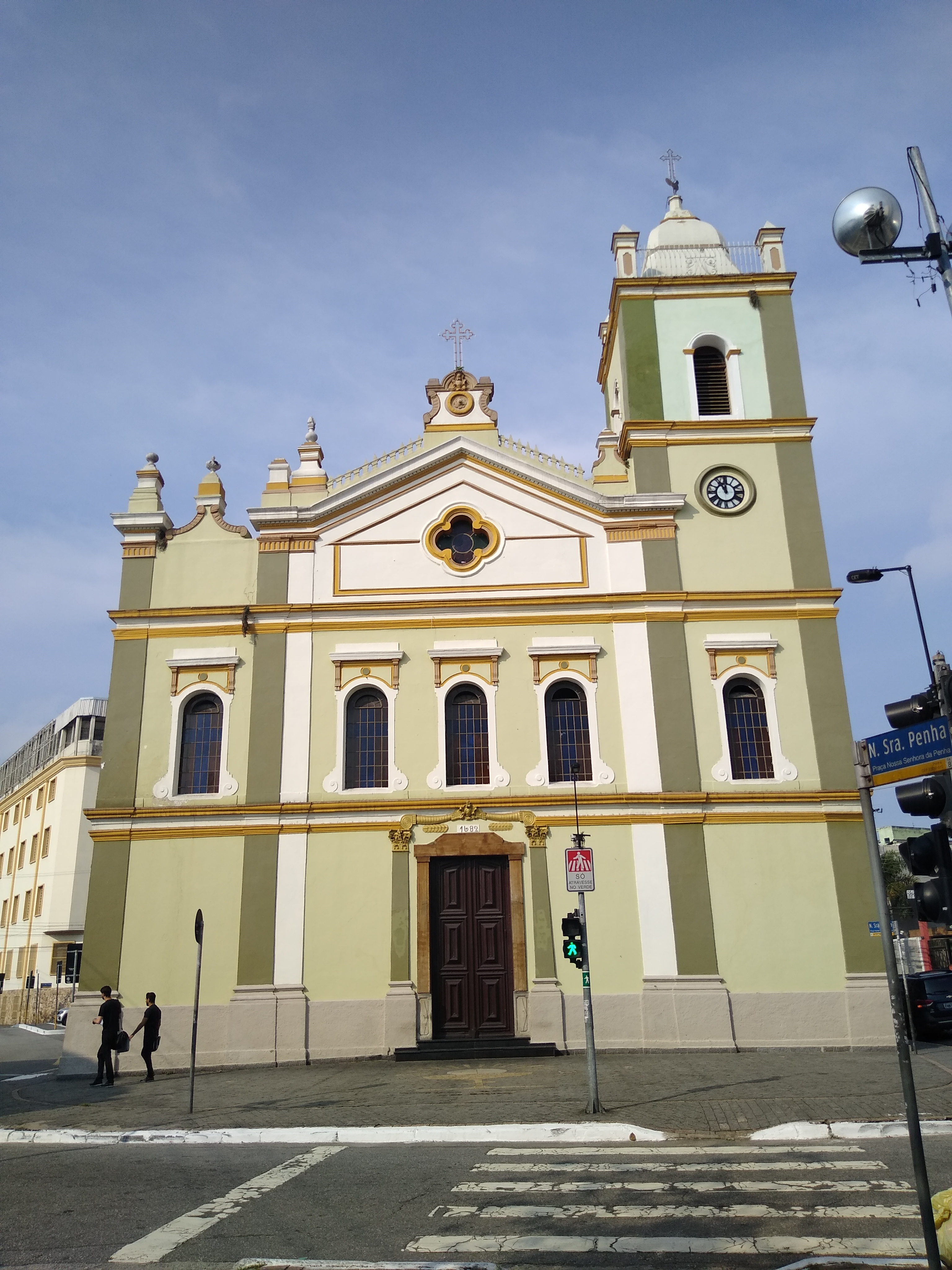 Vista anterior da igreja Nossa Senhora da Penha